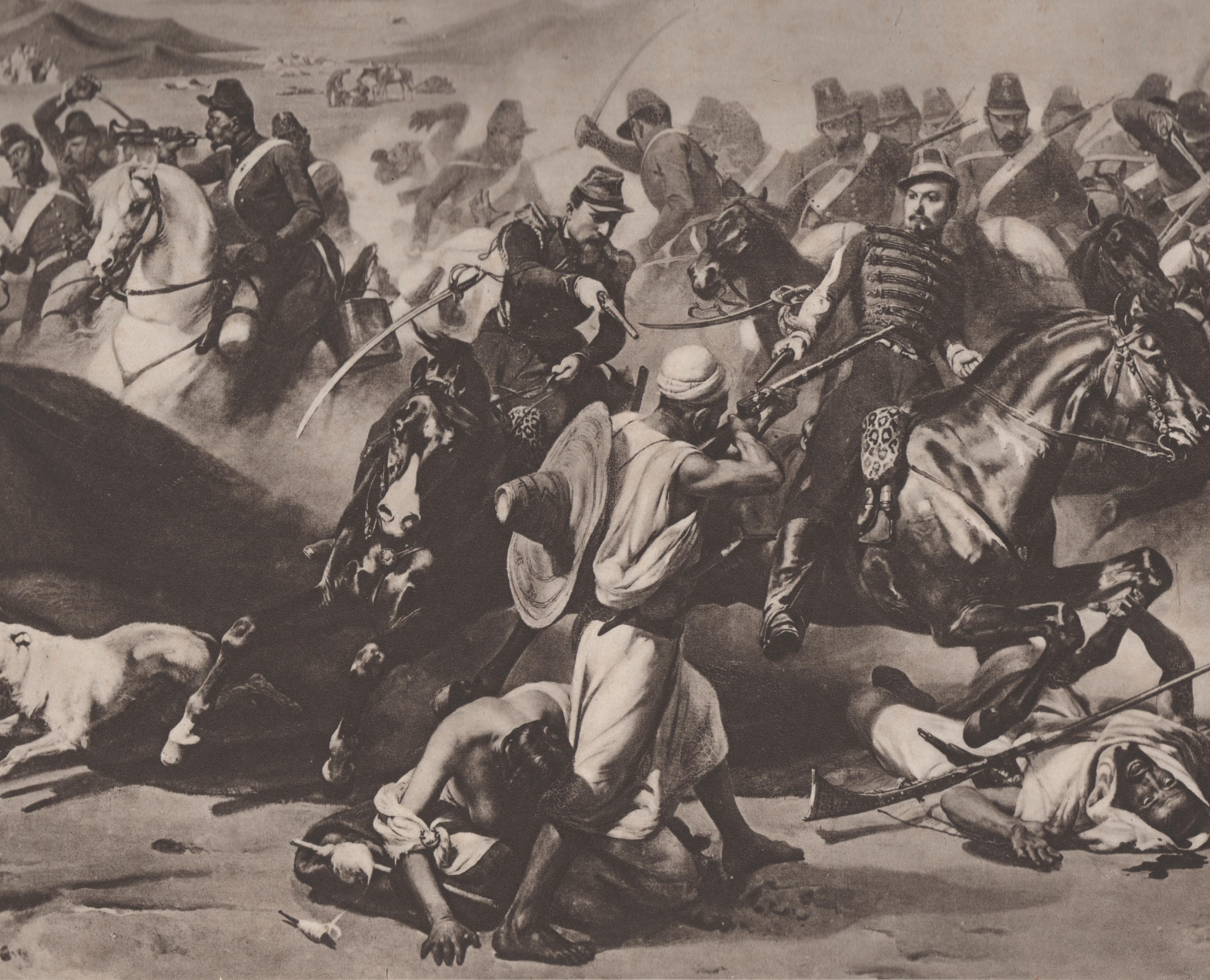 Smala of Abd-el-Kader